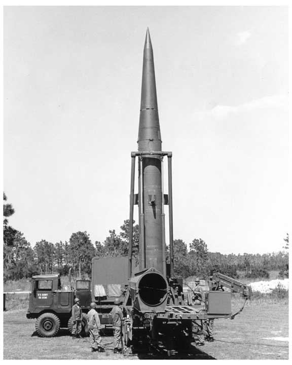 Pershing 1A missle on start vehicle.